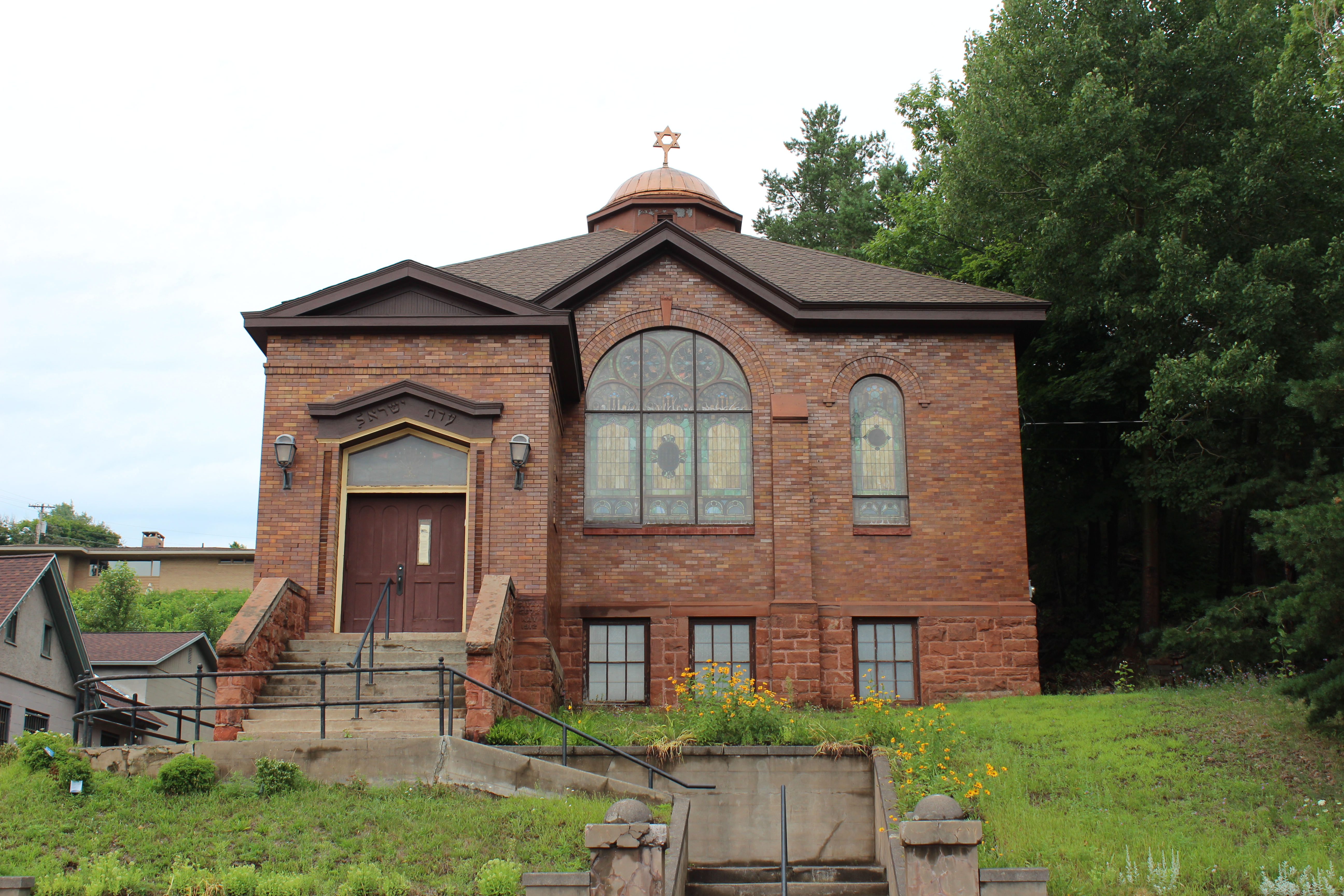 Temple Jacob is a synagogue in Hancock, Michigan, that is a contributing property of the East Hancock Neighborhood Historic District.